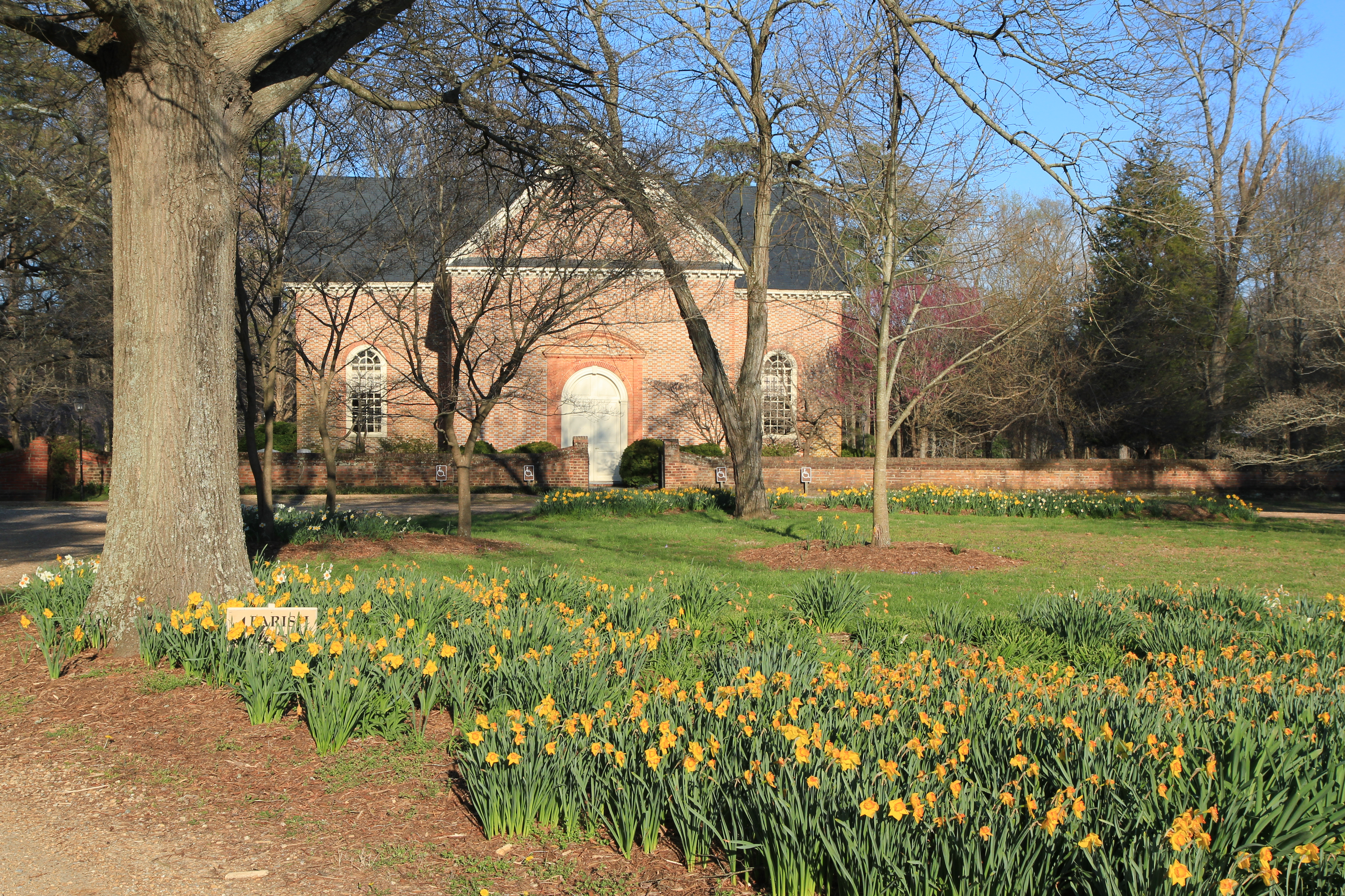 A historic church in Gloucester VA.